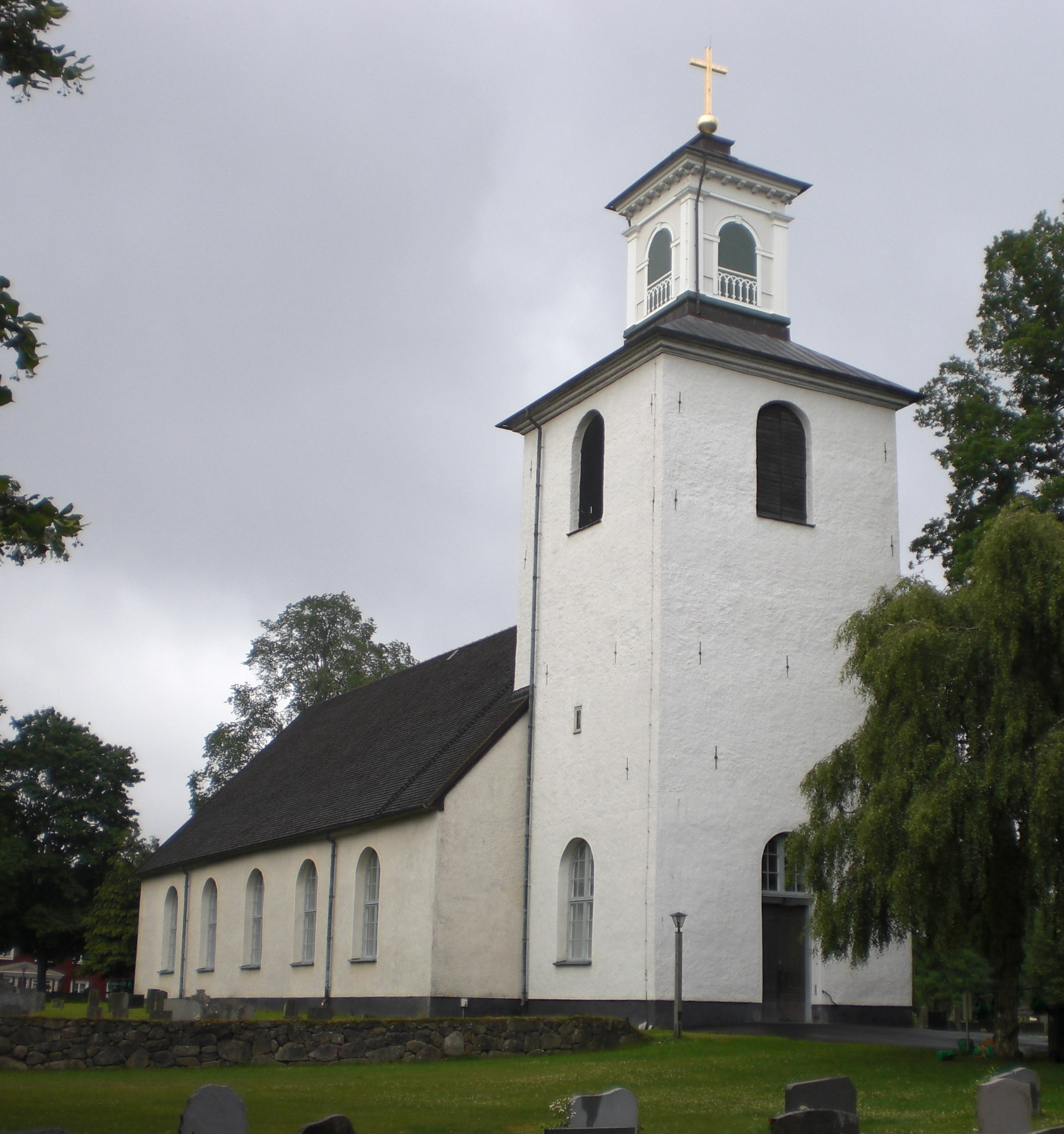 Långasjö church, exterior, Småland, Sweden